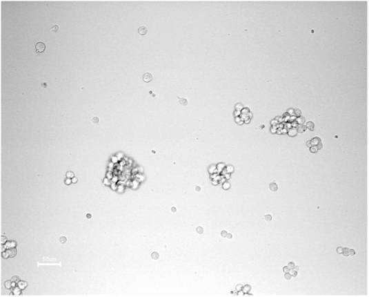 neurospheres